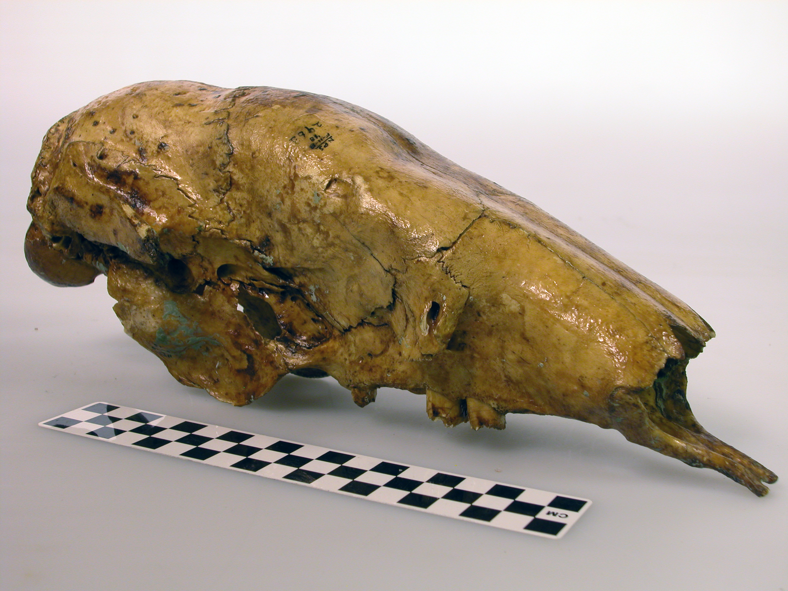 SHASTA GROUND SLOTH SKULL. NOTHROTHERIOPS SHASTENSIS. LENGTH 41.0 CM. COLLECTED DURING 1936-1937. BONE IS COATED WITH SHELLACK. . . Grand Canyon National Park Museum Collection, P.O. Box 129, Grand Canyon, AZ 86023. .